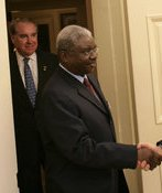 Mozambique's president Armando Guebuza visiting George W. Bush at the Oval Office, June 13, 2005